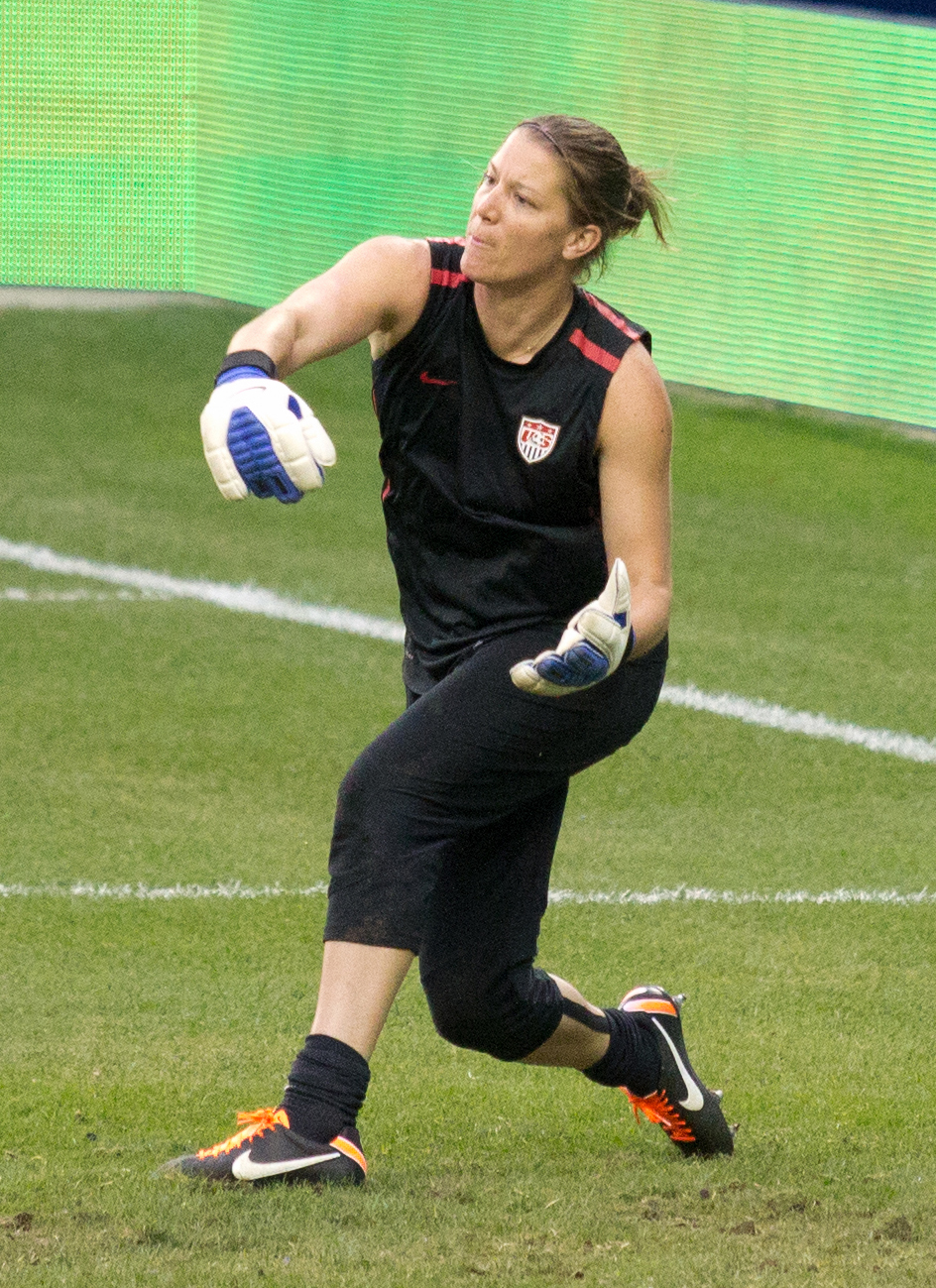 Nicole Barnhart of the United States Women's National Soccer team warming up prior to a friendly match against Canada on September 17th, 2011.